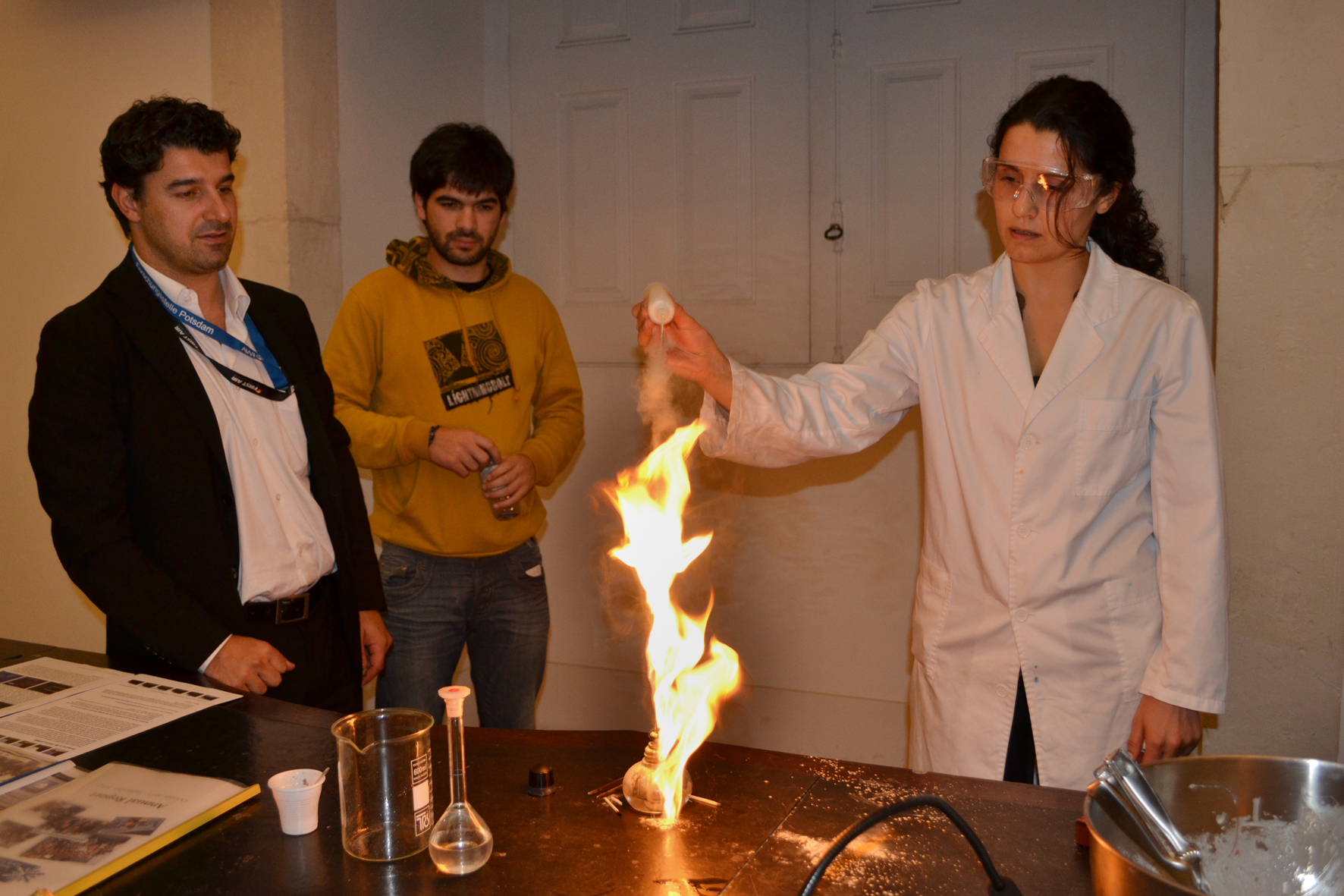 José Xavier during Polar Educators Workshop in Coimbra, Portugal